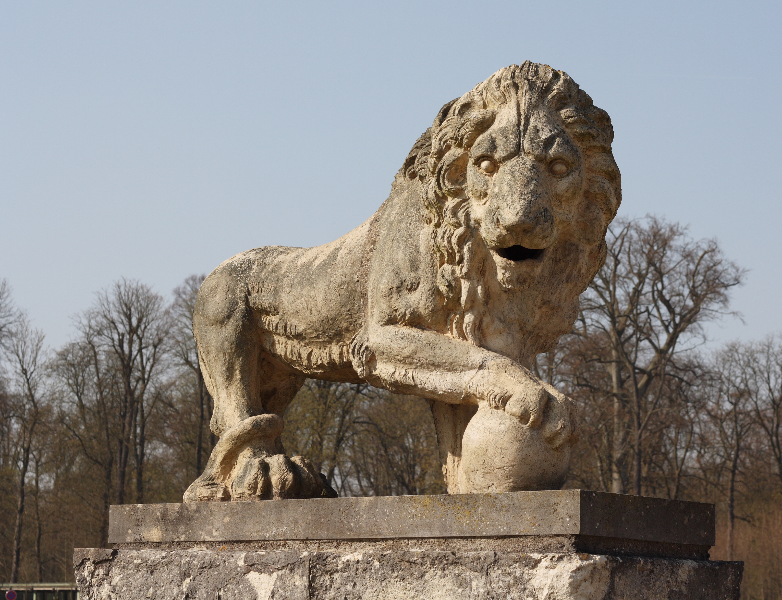 Medici lion sculpture in the Parc de Saint-Cloud near Paris. Sculptor and year unidentified.